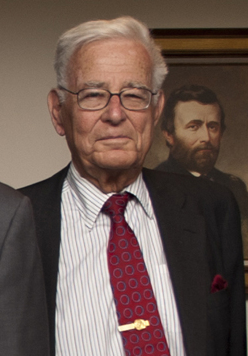 Secretary of Defense Chuck Hagel, third from right, and former Secretaries of Defense Frank Carlucci, left, William Perry, second from left, James Schlesinger, third from left, Harold Brown, second from right, and former Secretary of State Henry Kissinger pose for a group photograph after the meeting of the Defense Policy Board in the Pentagon in Arlington, Va. on June 18, 2013. Hagel hosted the gathering to discuss the challenges faced by the Department of Defense and to get some prospective from his predecessors.